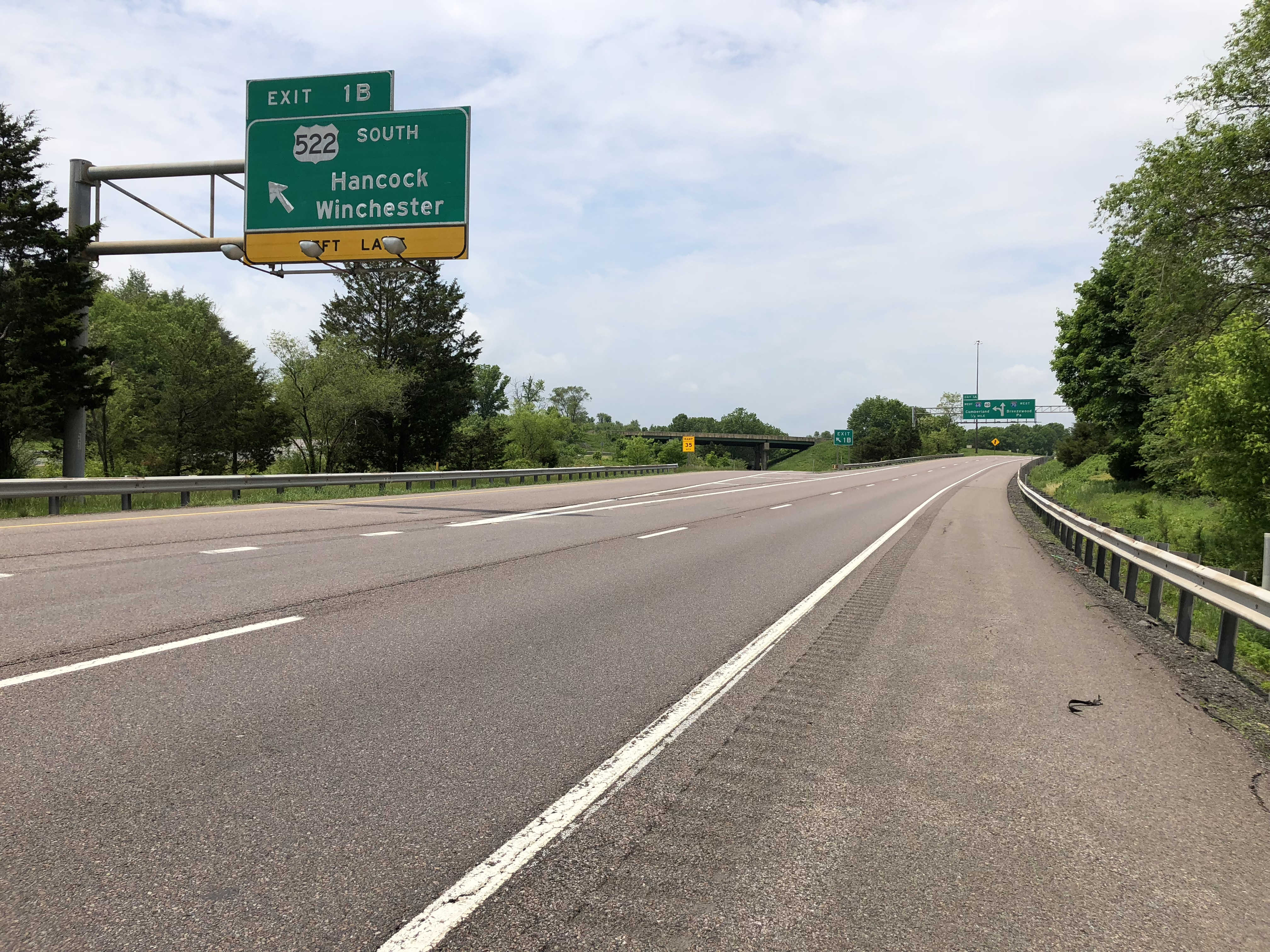 View west along Interstate 70 and U.S. Route 40 at Exit 1B (U.S. Route 522 SOUTH, Hancock, Winchester) in Hancock, Washington County, Maryland